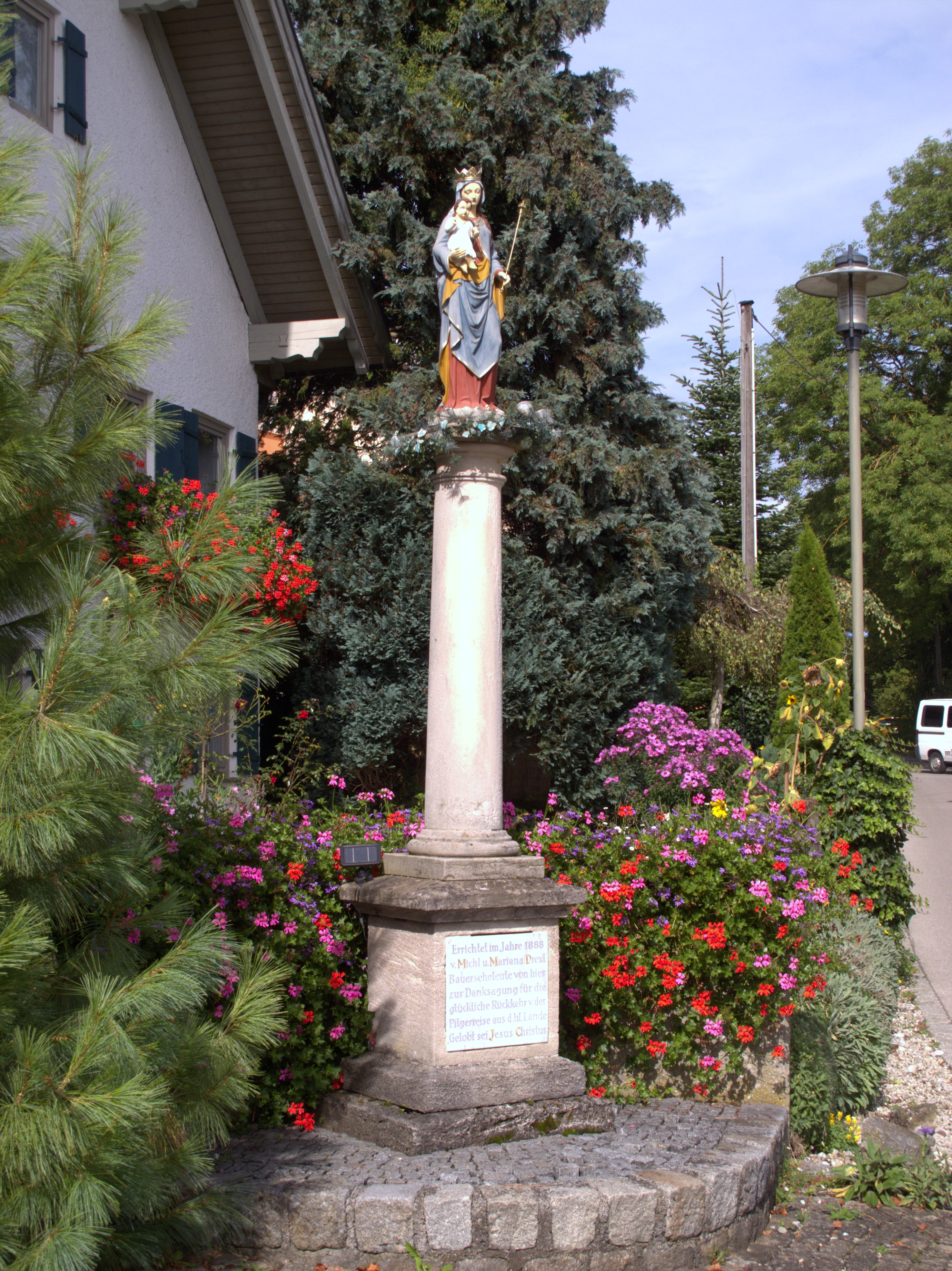 This is a photograph of an architectural monument.